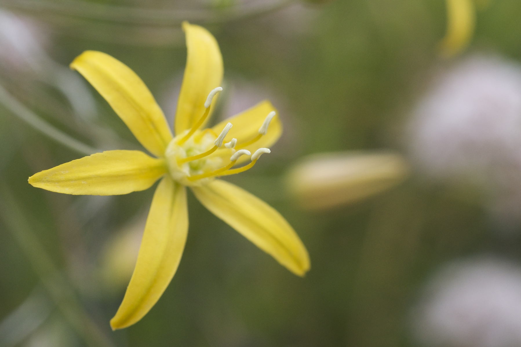 Bloomeria crocea — Goldenstar. Native plant of California chaparral and woodlands habitats. Photographed on Panoche Road, San Benito County, northern California.